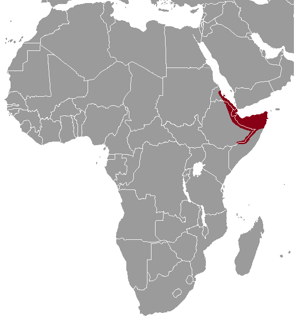 Pectinator spekei range map